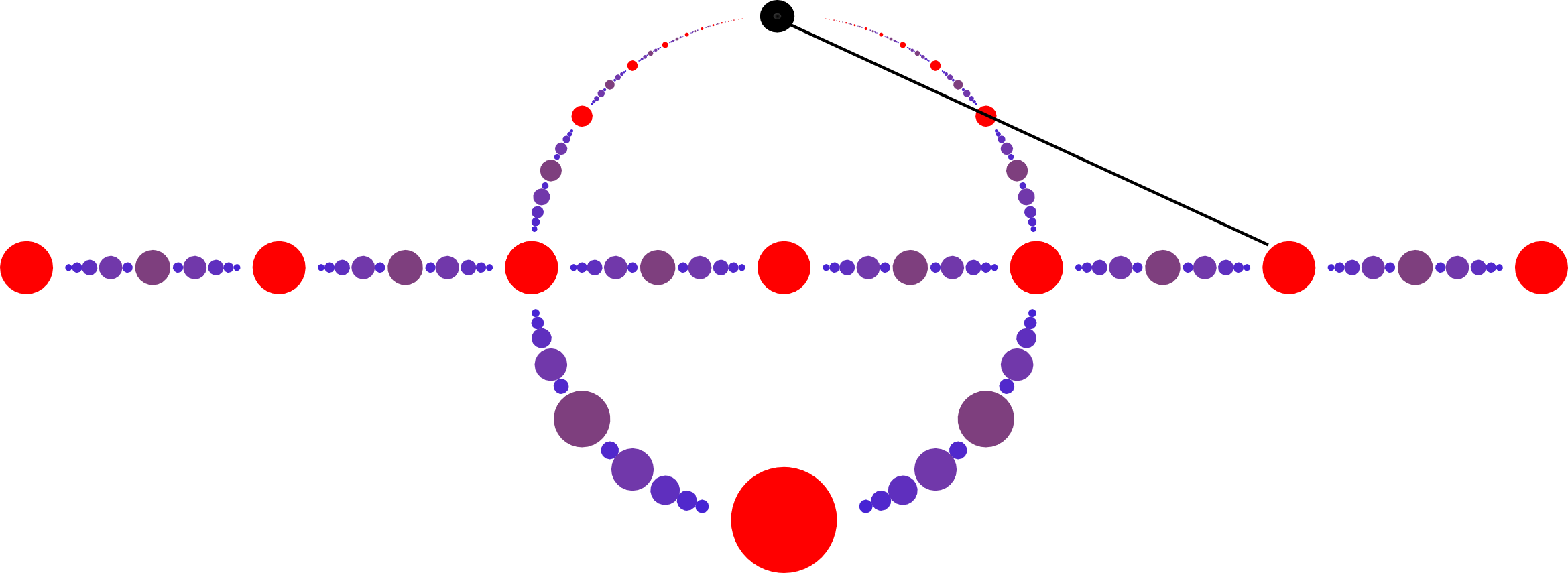 Stereographic projection of rational real points onto the unit circle, with size adjusted to reflect the relative change in the measure. Made with Mathematica and processed in Inkscape.